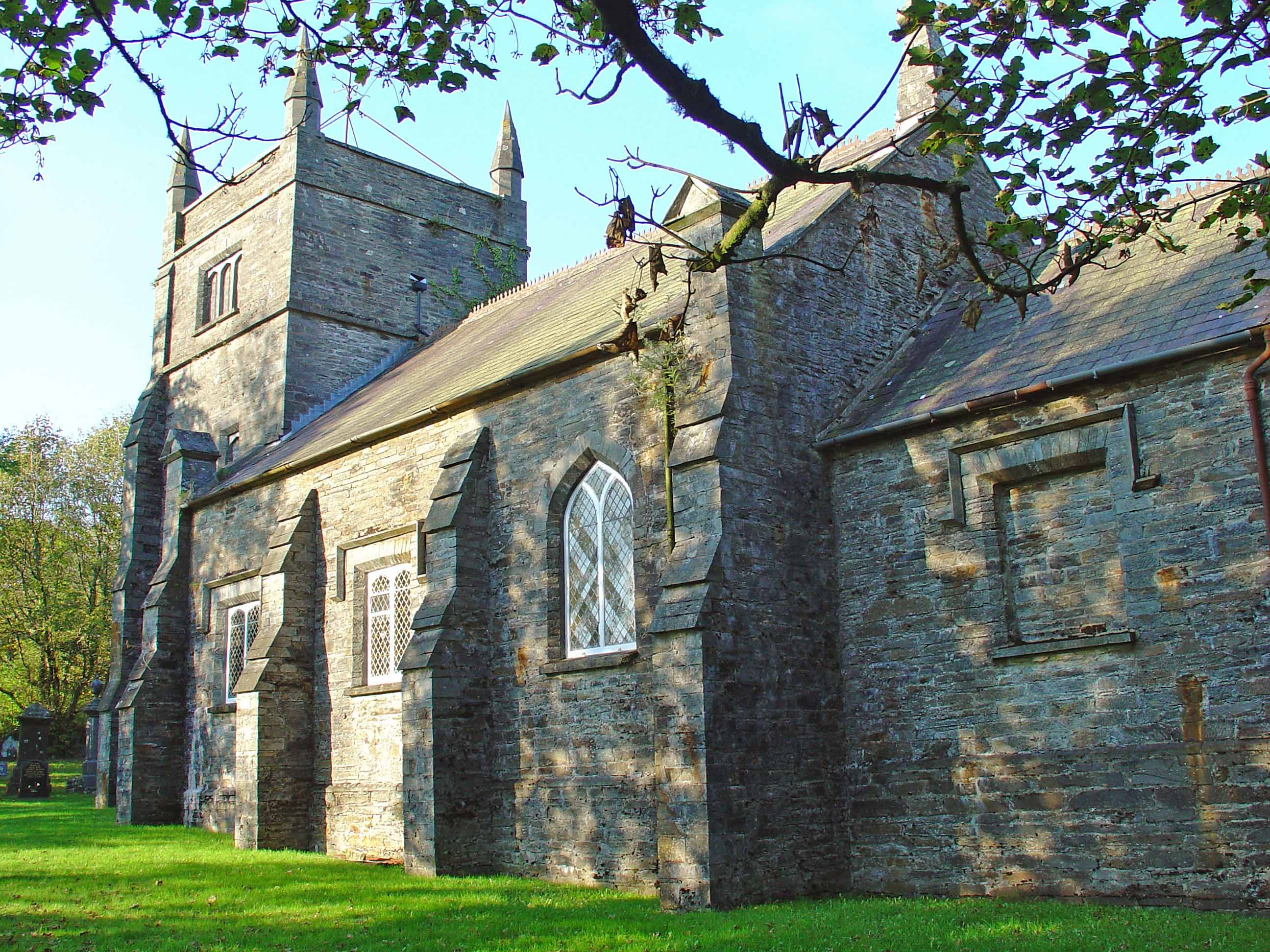 The parish church of St Brynach, Llanfyrnach, Pembrokeshire, Wales. Note tower.